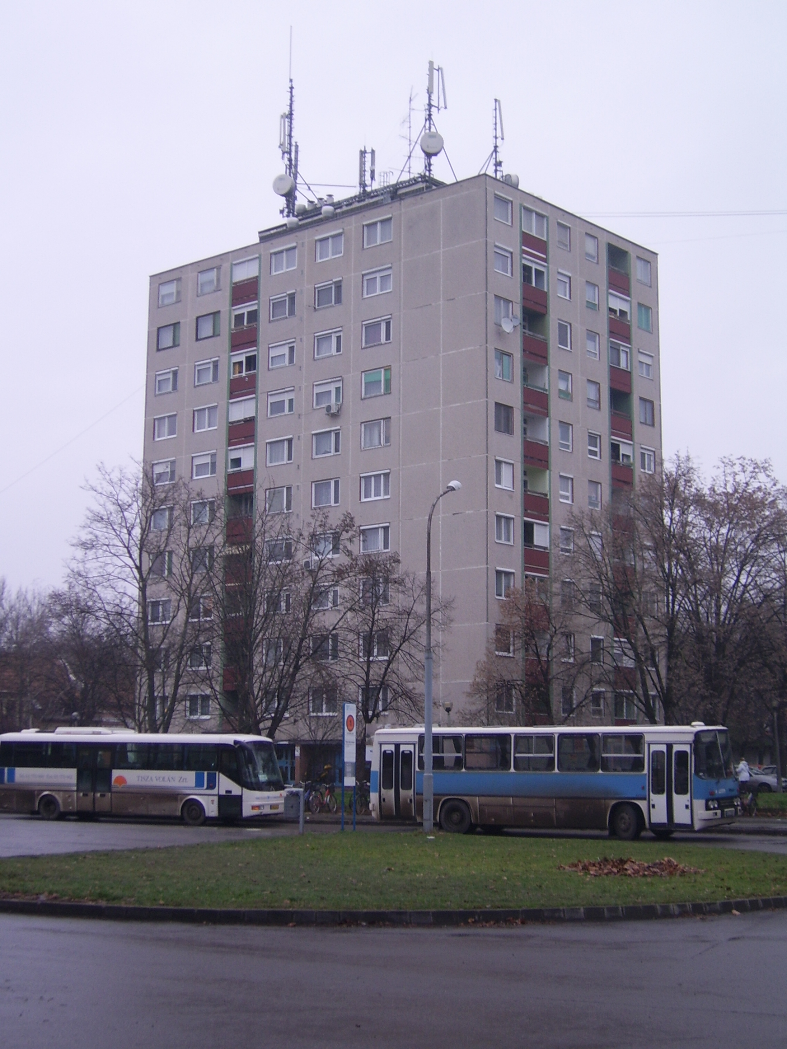 Block of flats in Csongrád